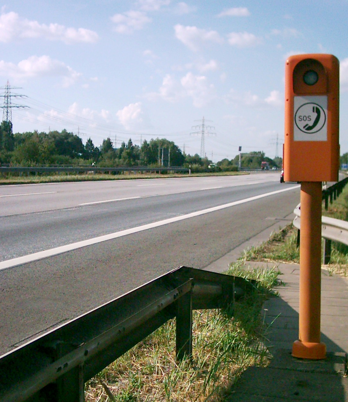 Emergency telephone on a Highway in Germany.